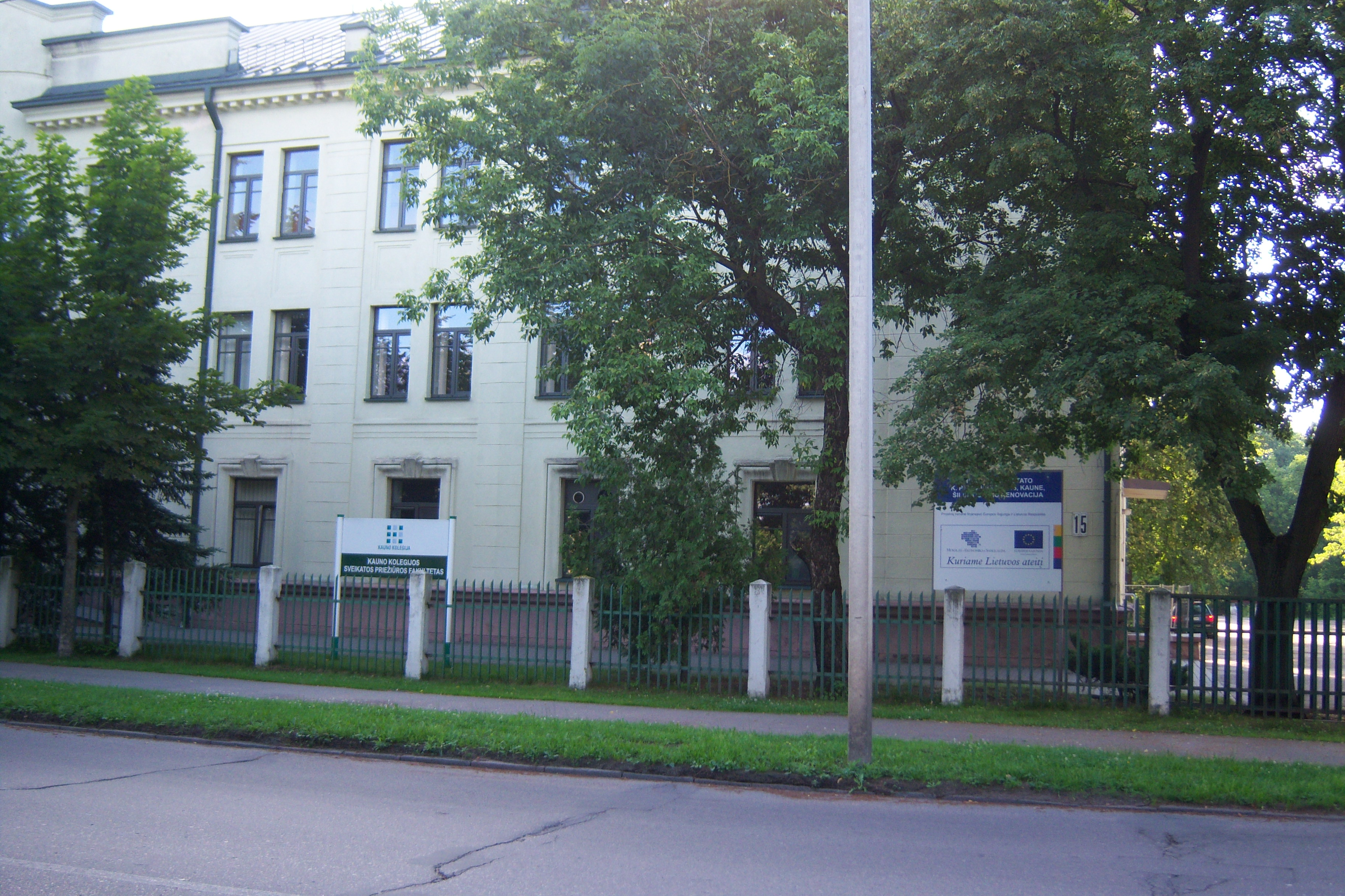 Kaunas College, Lithuania